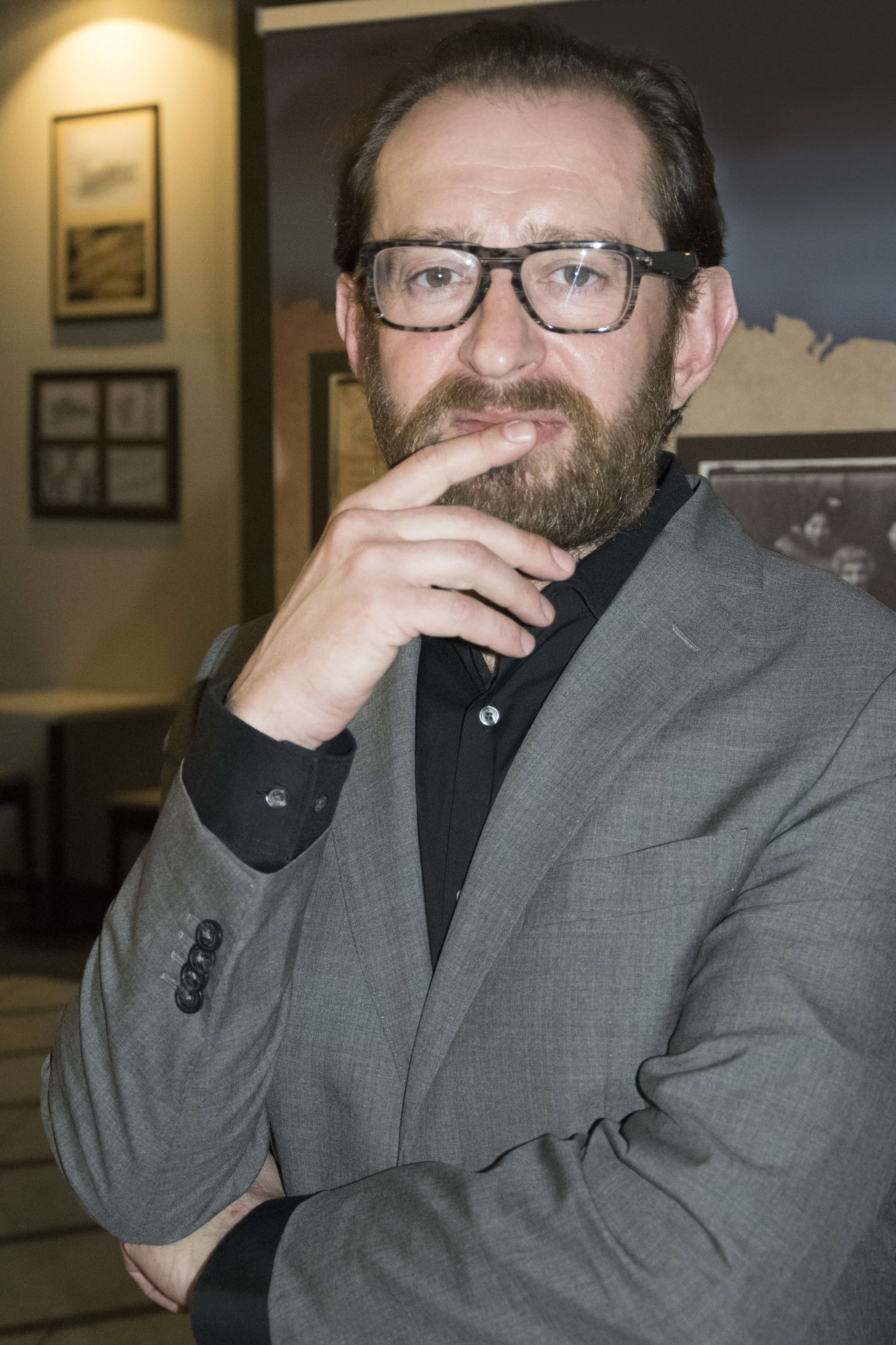 Konstantin Khabensky at the Czech premiere of Sobibor, 6 May, 2018